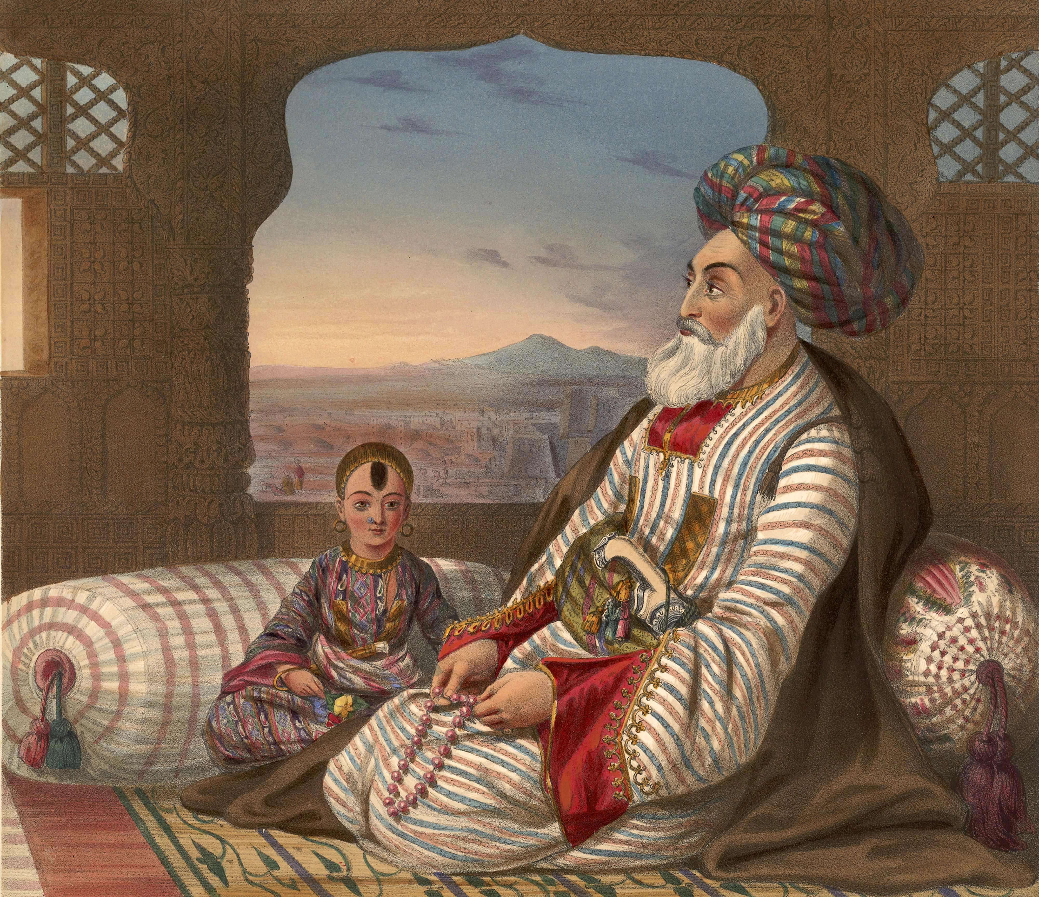 Dost Mahommed, King of Caubul, and his youngest son This is lithograph is taken from plate 2 of 'Afghaunistan' by Lieutenant James Rattray. Rattray was in the Bengal Army and took part in the first Afghan War, from 1839 to 1842. This conflict saw Dost Mohammed deposed as Emir of Afghanistan. Rattray was granted an audience with the Emir in Peshawar in January 1841. At this time, Dost Mohammed was a prisoner of state and on his way to exile in Calcutta. Rattray was struck by the Emir's deep voice, open manner and intelligent countenance, and by his followers with their finely chiselled features and tall, handsome figures. The young boy with his head shaven in the manner "peculiar to the rosy-cheeked children of Caubul" was the Emir's son from his youngest wife. Rattray wrote that since Dost Mohammed had been "a ruler just and merciful and attentive to affairs of state ... the population of Peshawur considered him to be most unjustly treated by us." The decorations of this apartment were a facsimile of the Emir's former audience hall in the citadel of Ghazni.